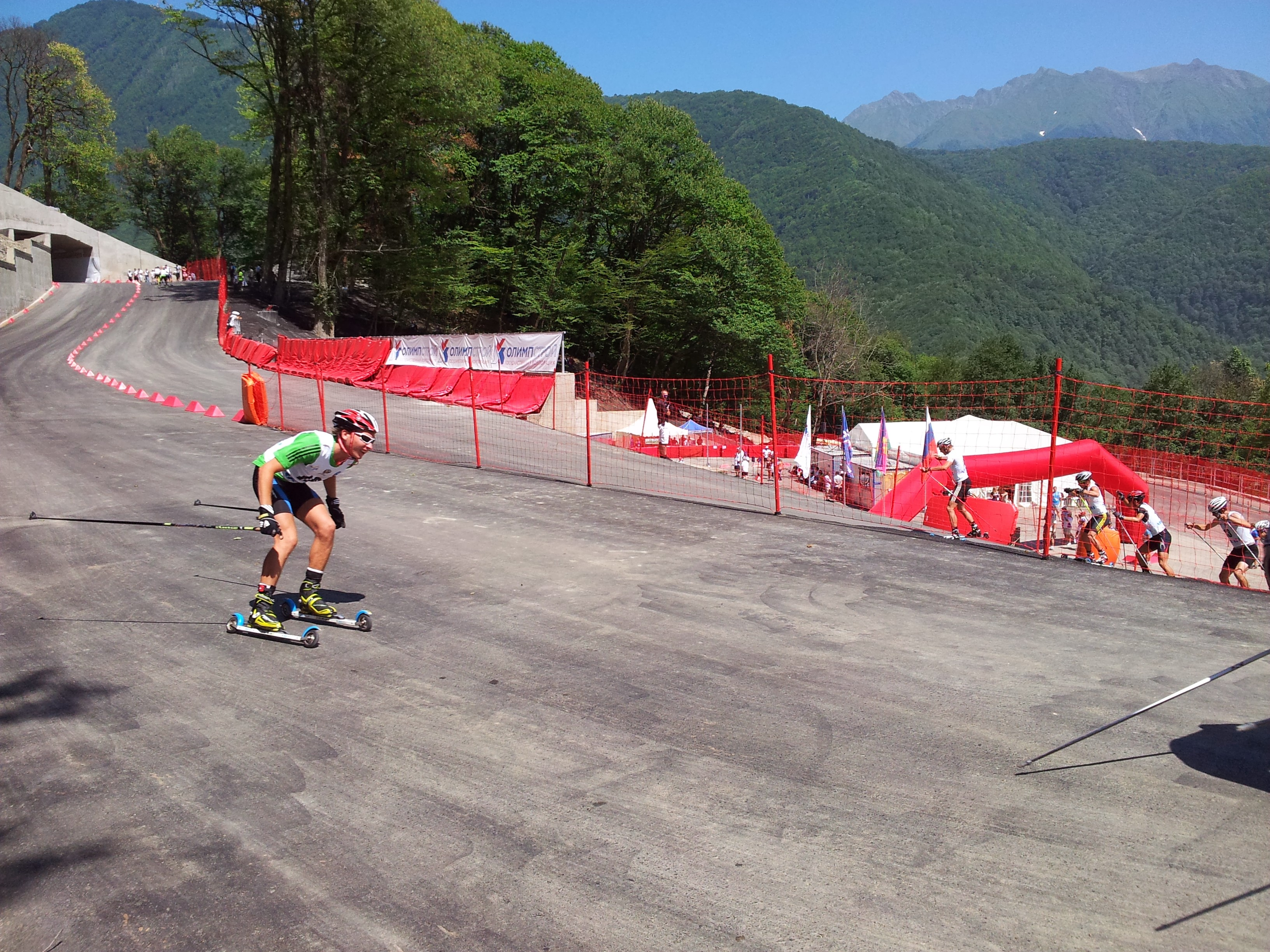 2012 FIS Gran Prix Nordic Combined - Roller on course